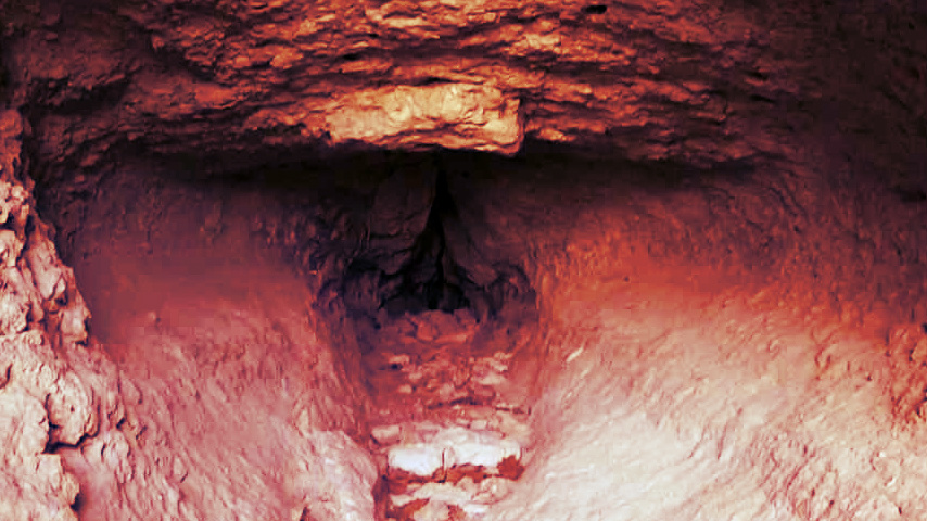 Womb Kovil BG 1